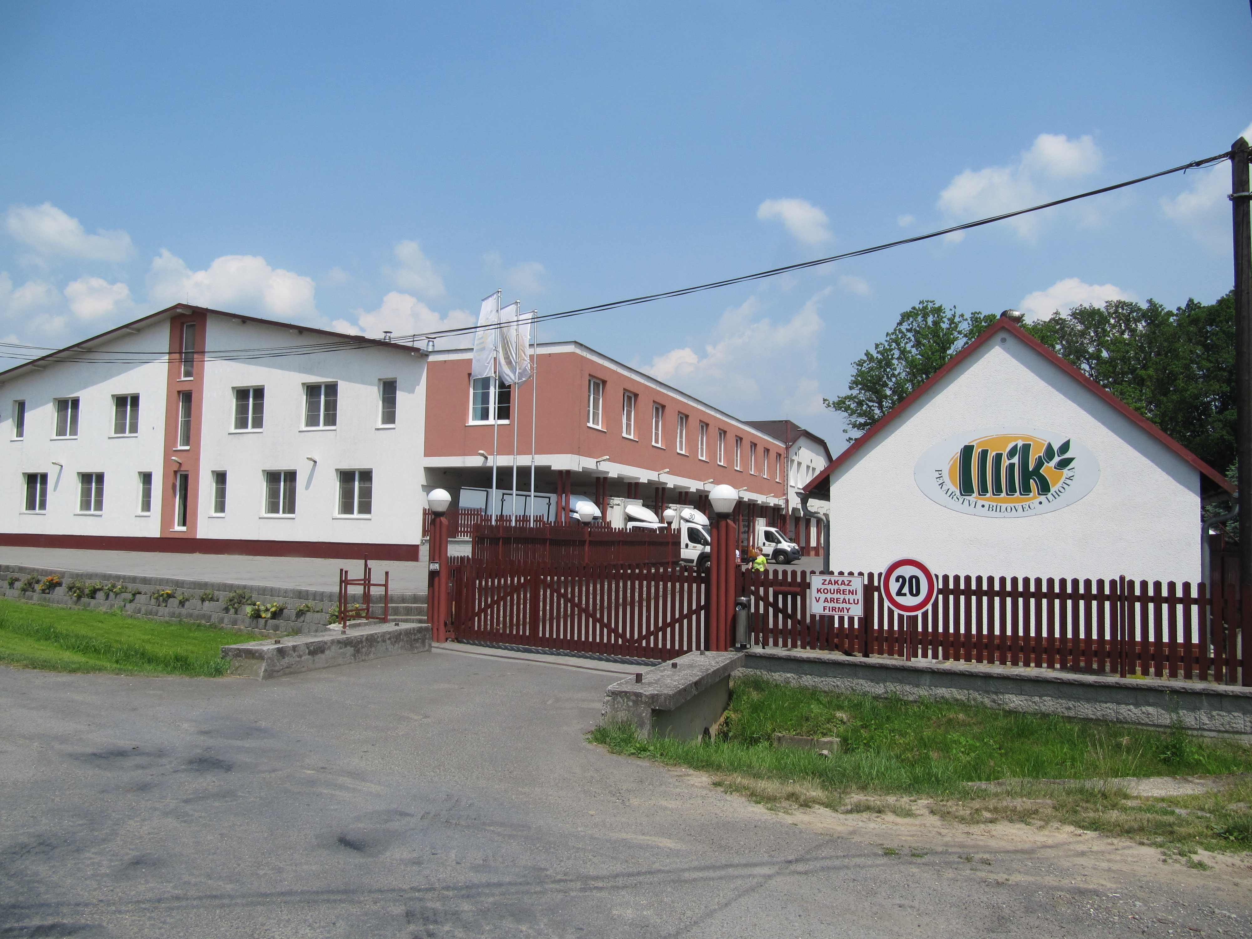 Bílovec, Nový Jičín District, Czech Republic, part Lhotka.